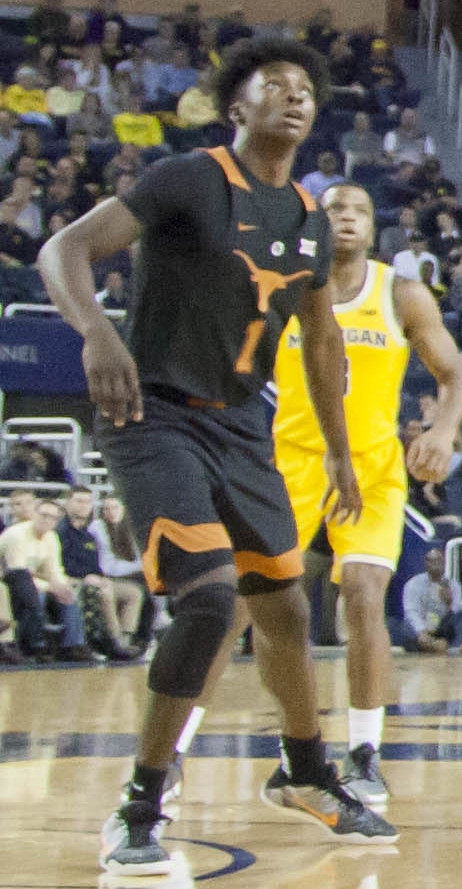 Michigan vs Texas basketball 2016